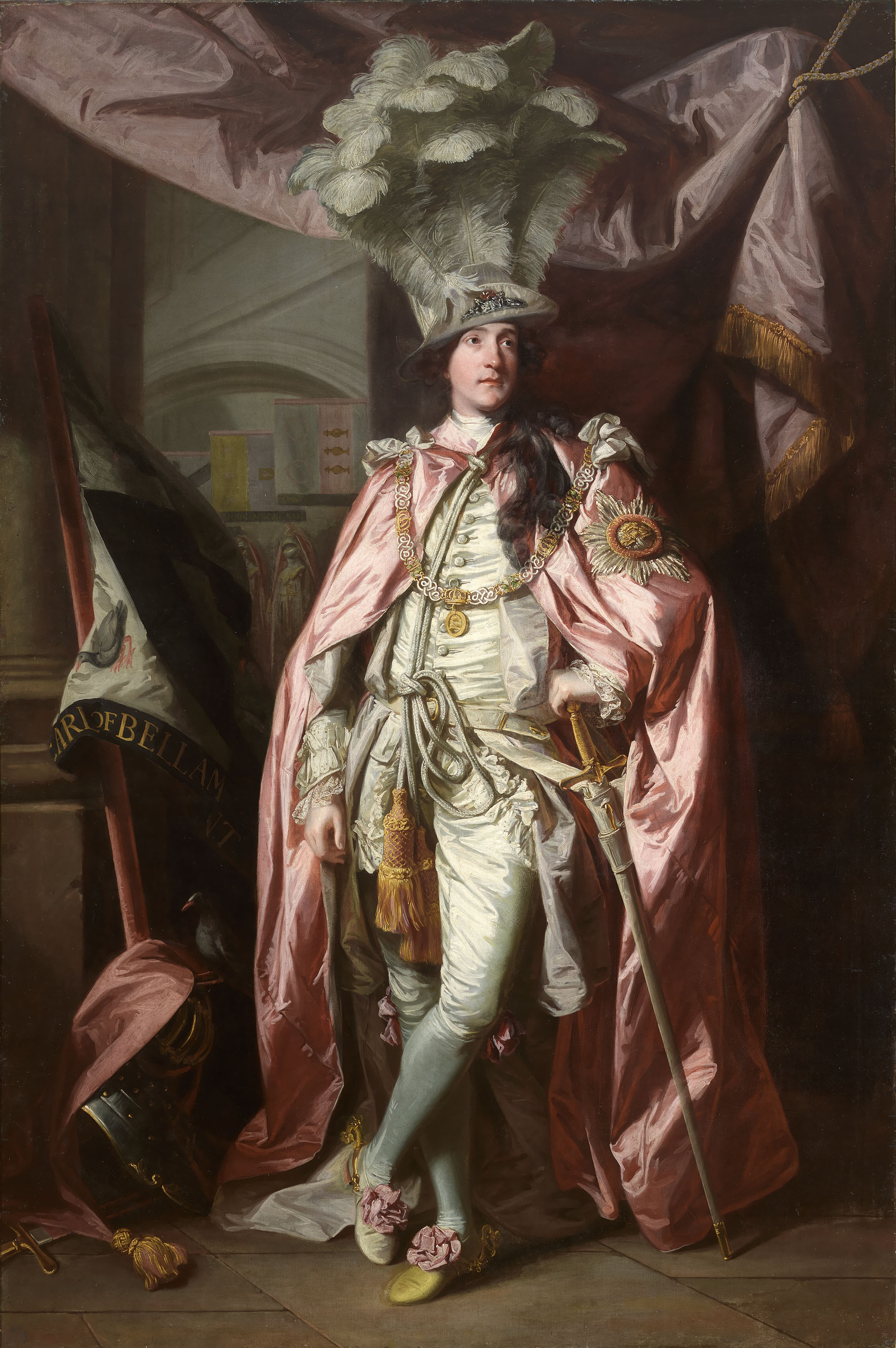 The Earl rests nonchalantly on his sword, dressed in ceremonial satin and lace and showing off his shoes with rosettes. No other Knight was ever immortalised in such a relaxed pose, or actually wearing the Order's oversize hat with ostrich feathers. Whereas the face is strongly painted with vermillion red, the fugitive carmine used for the robes has now turned to pink. The cross-legged pose from the antique is a typical 18th-century formula and, allied to the loose costume, far off gaze, undressed hair and falling curtain, evokes the era of Anthony van Dyck. A family reminder is the coot on his banner and one standing below it. (National Gallery of Ireland: Essential Guide, 2008)